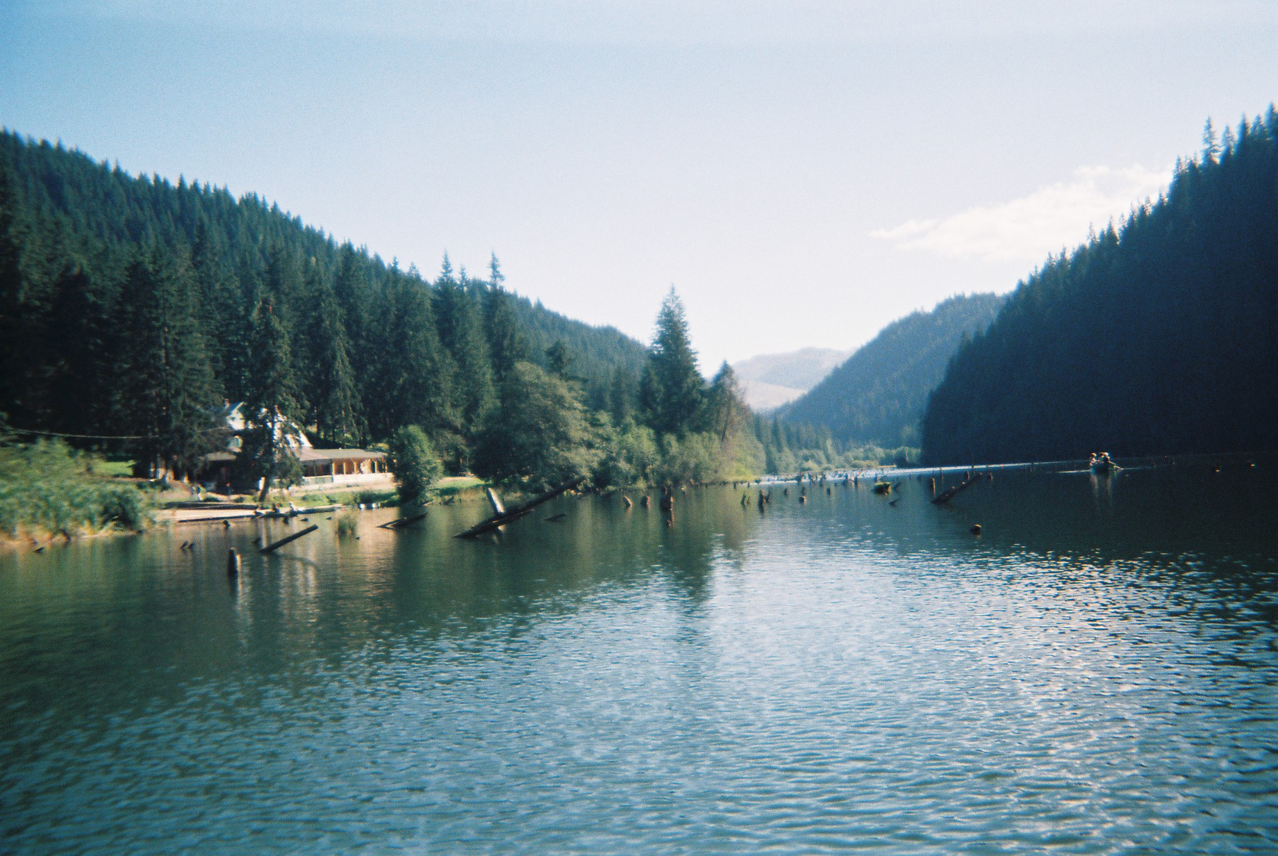 Laura Mihaes